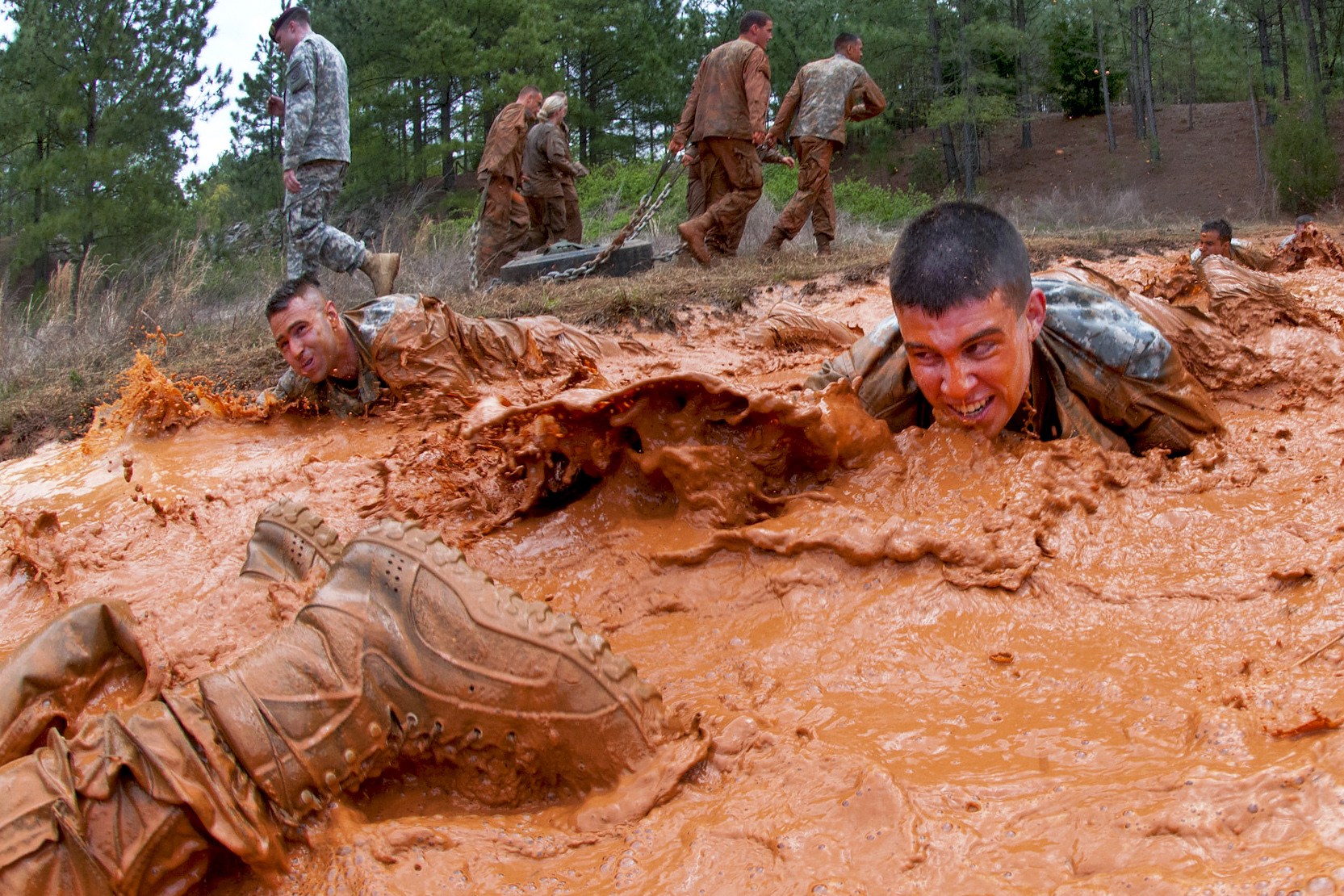 U.S. Army 1st Lt. Andrew McKinley crawls through a muddy obstacle as he and his team of officers complete a testing course during Prop Blast, a traditional team-building event that welcomes new officers to the division at Fort Bragg, N.C., on April 8, 2011. McKinley is a logistics officer assigned to the 82nd Airborne DivisionÃ­s 1st Brigade Combat Team.